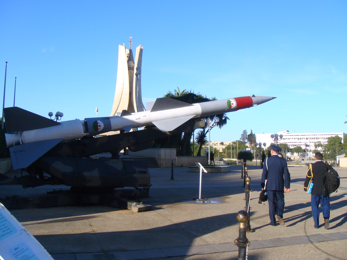 USARAF Commander visits Algeria December 2010. Maj. Gen. Hogg and the American country team tour the Central Military Museum in Algiers, Algeria, December 2010. U.S. Army photo.